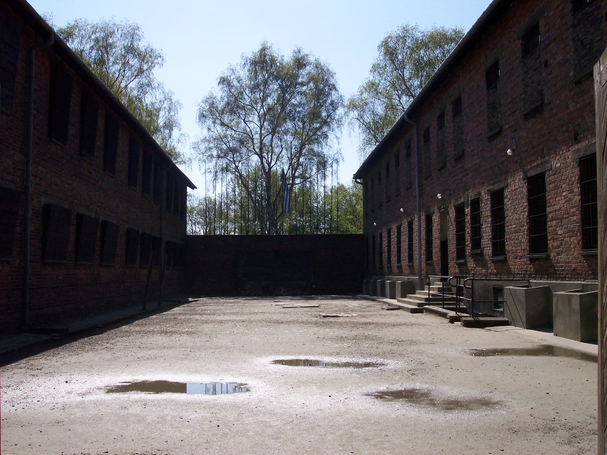 Concentration camp Auschwitz I